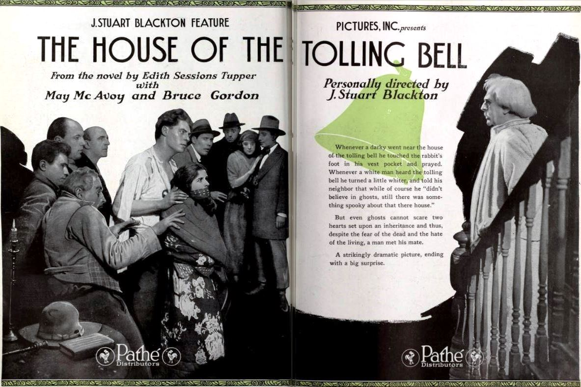 Advertisement for the American mystery film The House of the Tolling Bell (1920) with Bruce Gordon, May McAvoy, Edward Elkas, William R. Dunn, and Morgan Thorpe, from the insert after page 18 of the September 18, 1920 Exhibitors Herald.